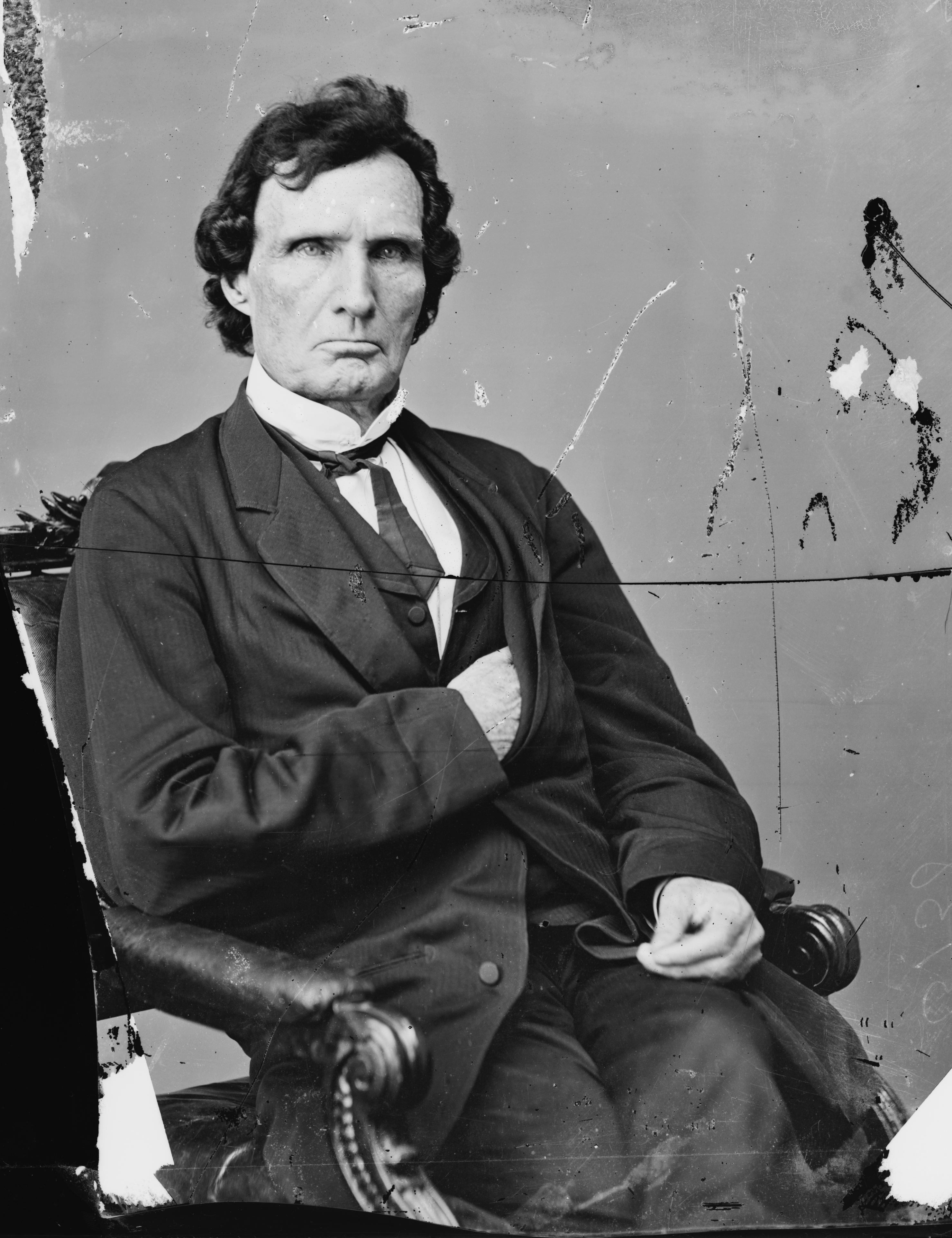 Thaddeus Stevens. Library of Congress description: "Hon. Thaddeus Stevens of Penn."